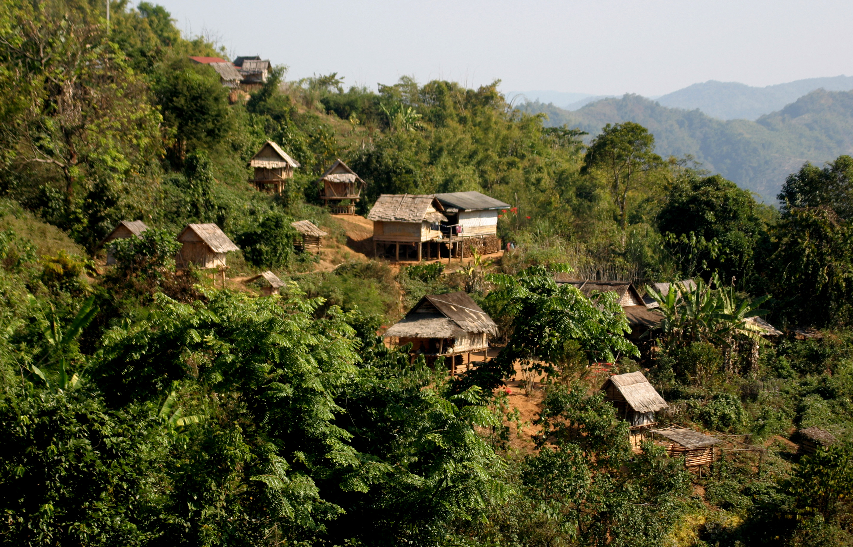 Khmu village in Oudomxay Province, Laos.